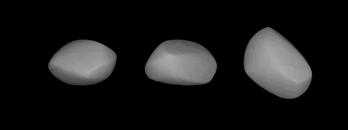 A three-dimensional model of 556 Phyllis that was computed using light curve inversion techniques.